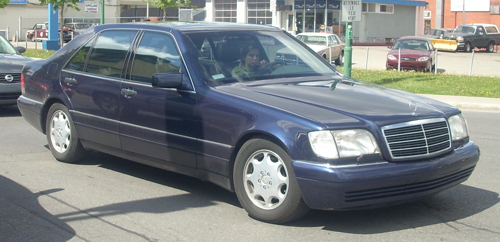 Mercedes-Benz S-Class photographed in Laval, Quebec, Canada.